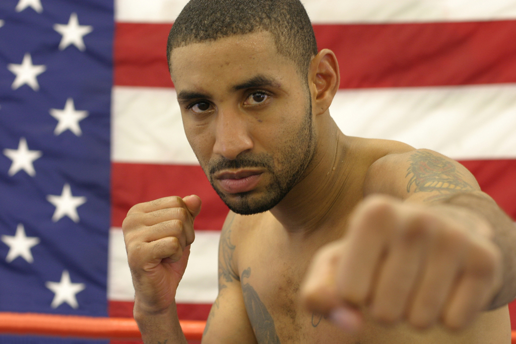 Former world boxing champion Diego Corrales (August 25, 1977 – May 7, 2007).